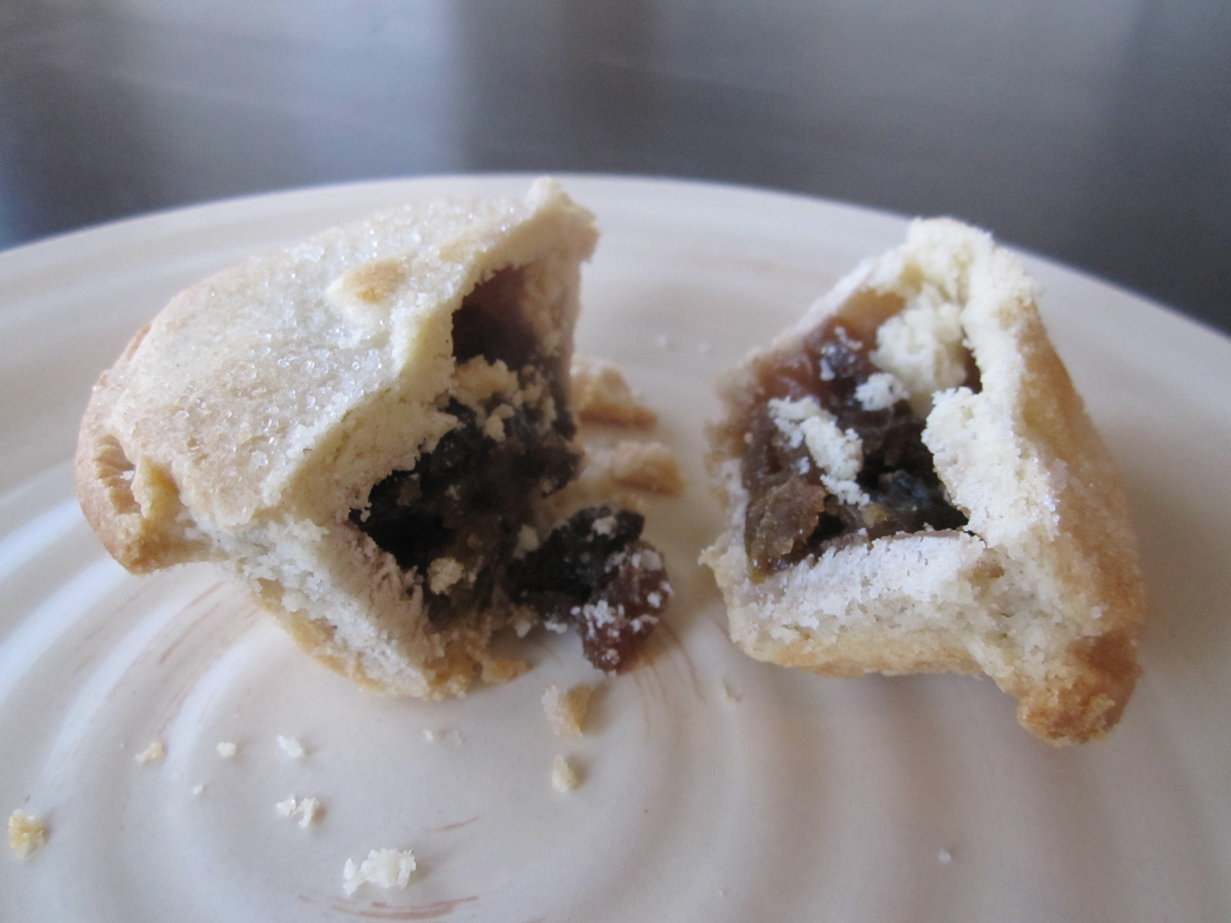 Mince pie cut in half.